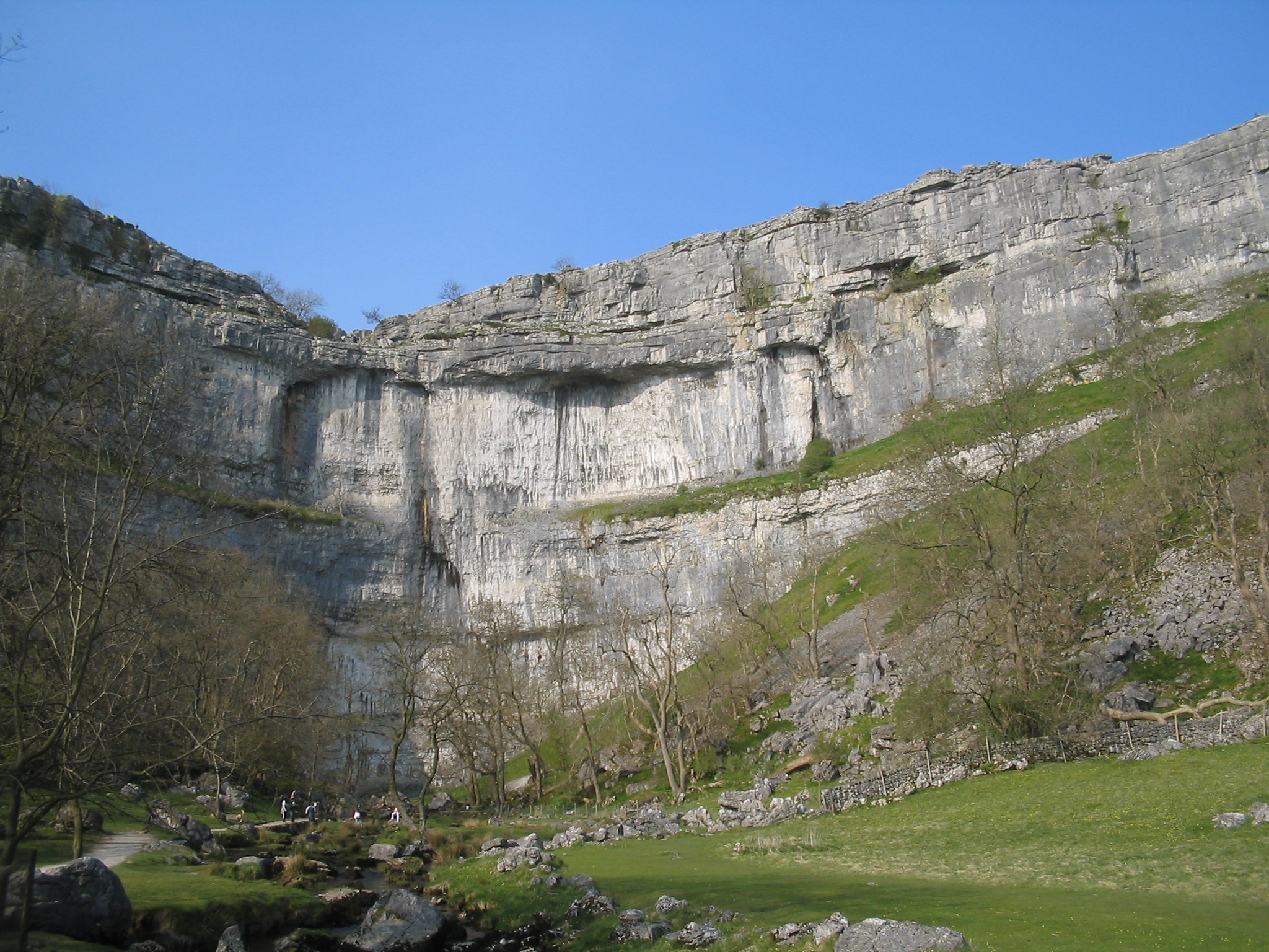 Malham Cove seen from the bottom of the cliff. David Benbennick took this photo on Sunday, April 24, 2005 at 4:36 PM (15:36 UTC).